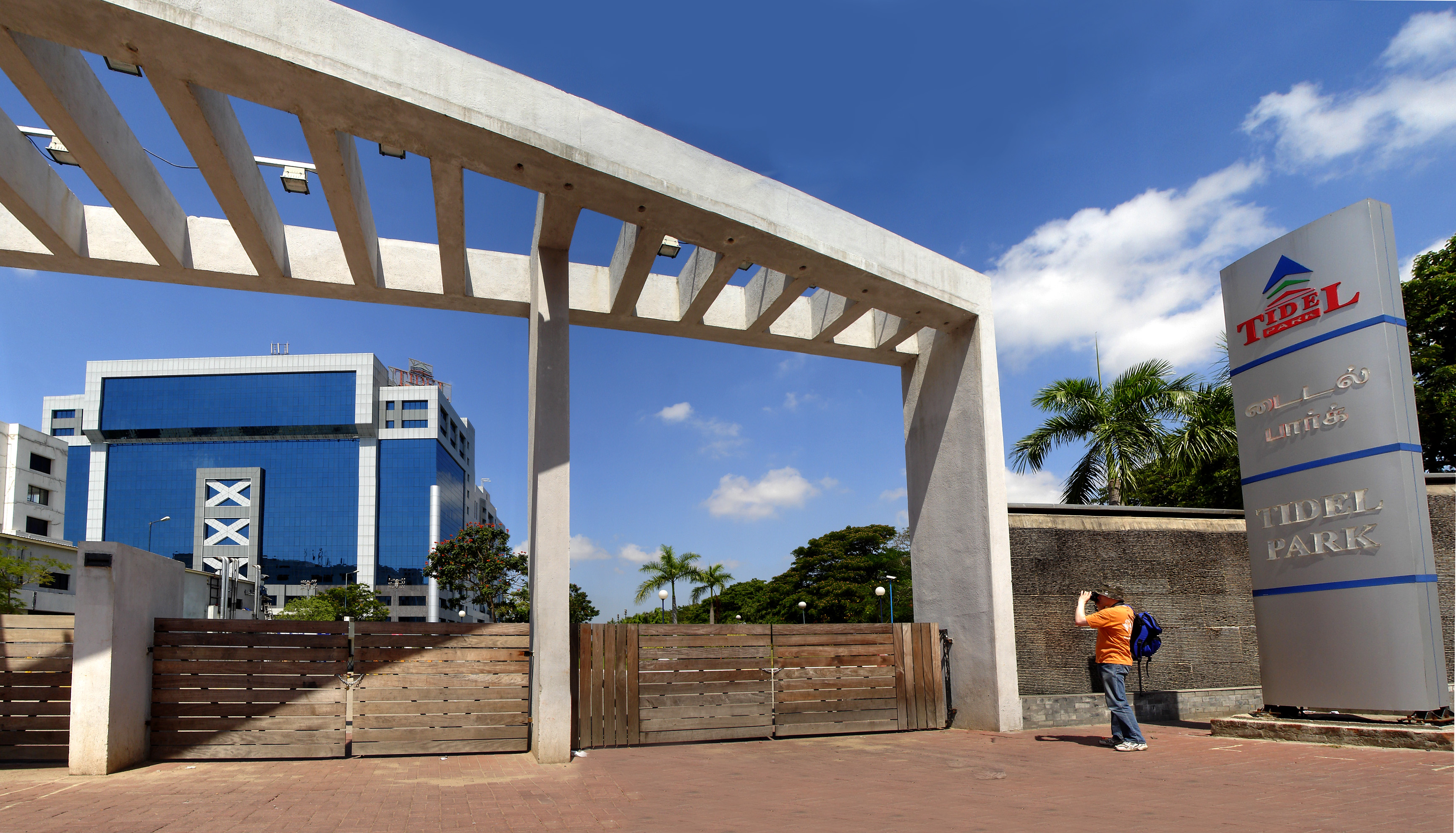 The enterance to Tidel Park